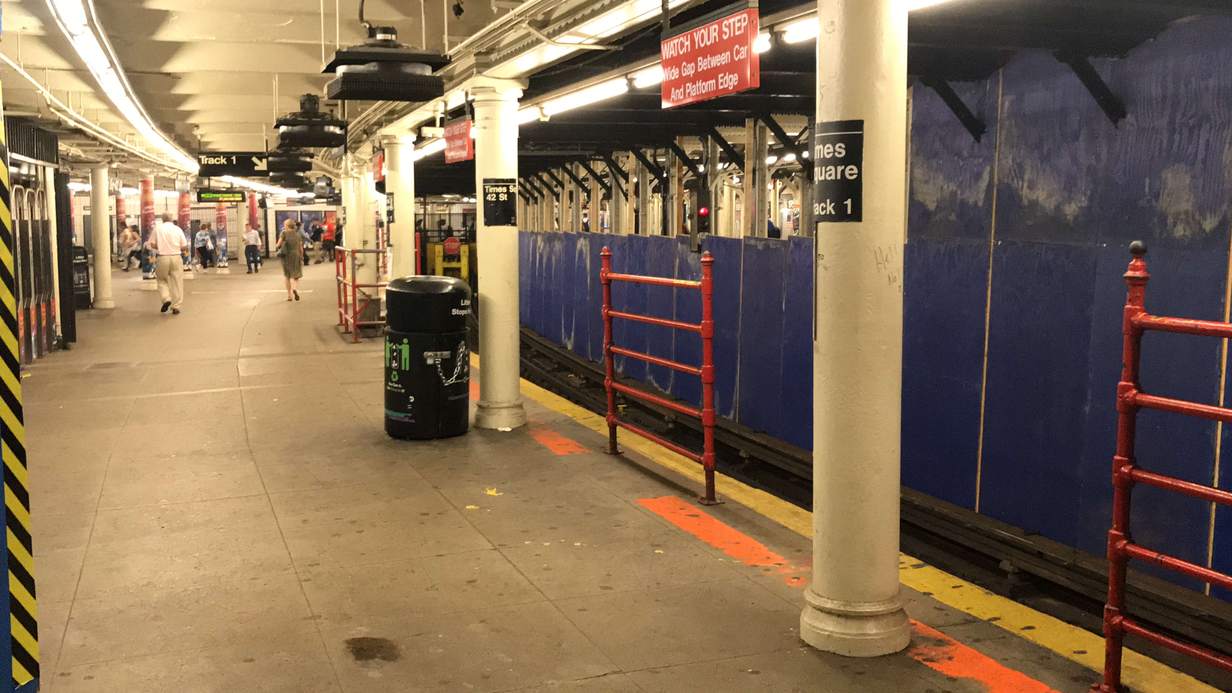 The blue temporary construction wall will cover the Track 2 platform to remove Track 3, and create a wider platform over former tracks 2 and 3